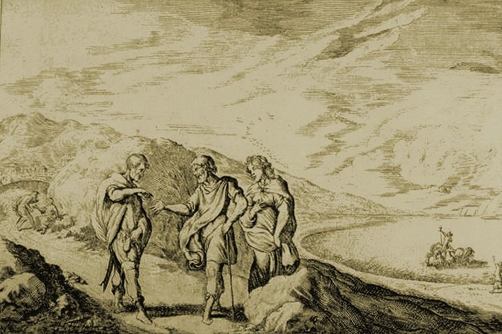 Erysichthon Sells His Daughter Mnestra. Engraving by Bauer for Ovid's Metamorphoses Book VIII, 823-878.